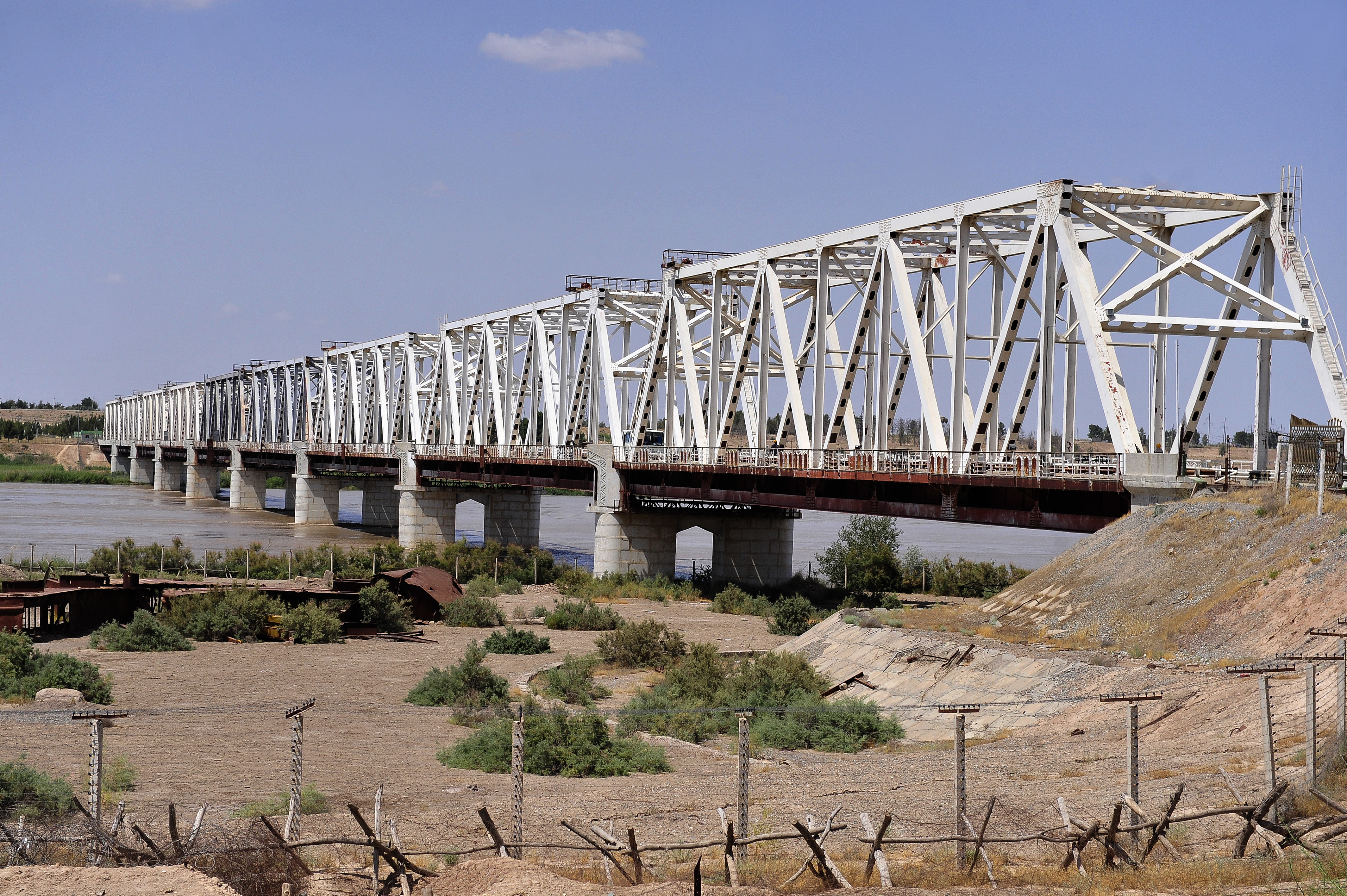 The "Friendship Bridge" runs across the Amu Darya River between Uzbekistan and Afghanistan. The friendship bridge connects Mangusar, Uzbekistan and Hariatan, Afghanistan. (U.S. Air Force Photo By Staff Sgt. Bradley Lail) (released)